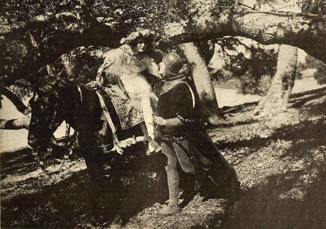 Still from the American film The Poet of the Peaks (1915) with Vivian Rich and David Lythgoe. The caption notes that the film is based upon John Keat's poem "La Belle Dame sans Merci." On page 5 of the April 3, 1915 Reel Life.